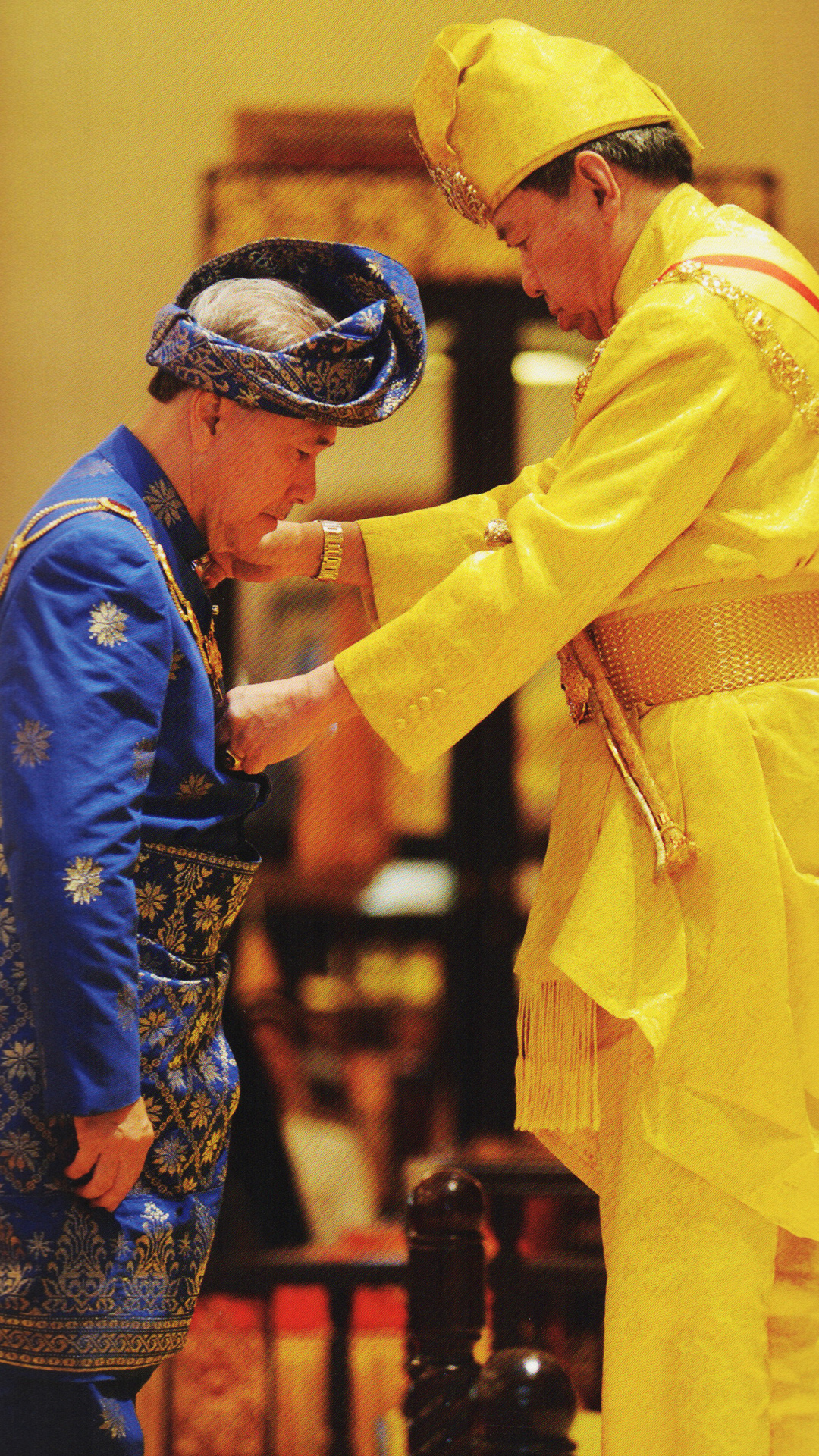 Y.A.D Tengku Dato' Setia Putra Alhaj receiving SSIS from Sultan Selangor